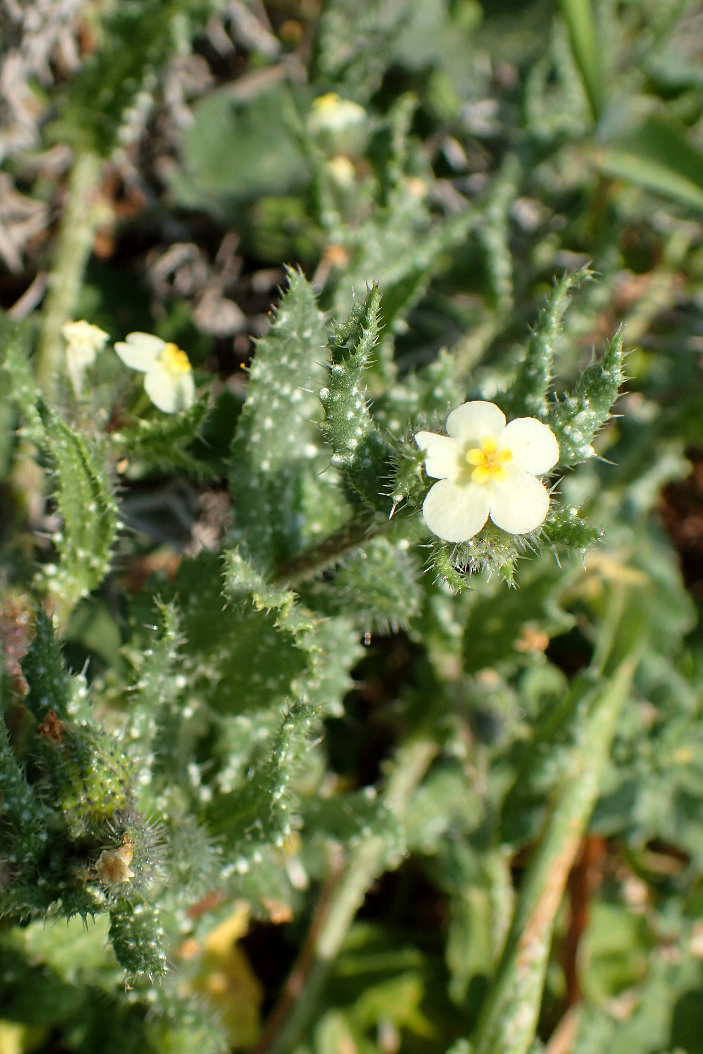 Anchusa aegyptiaca on Kavo Gkreko, Cyprus